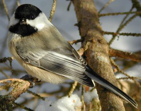 Black-capped Chickadee on spruce tree 12-28-2004. Captioned As {}